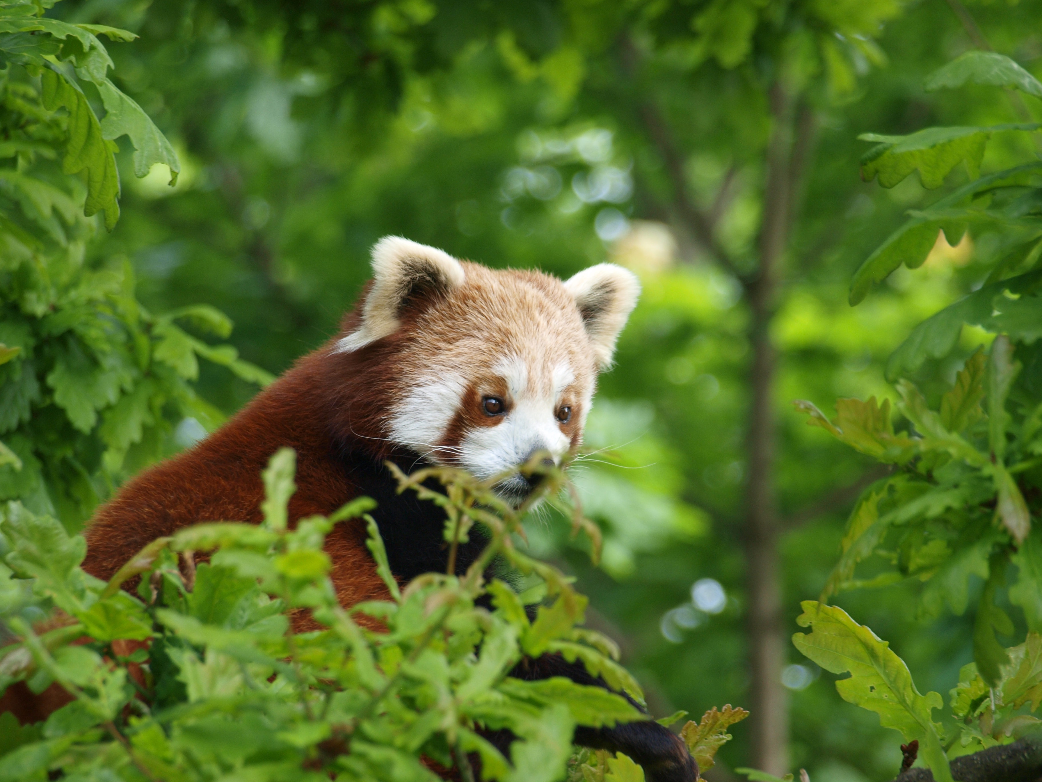 Red Panda